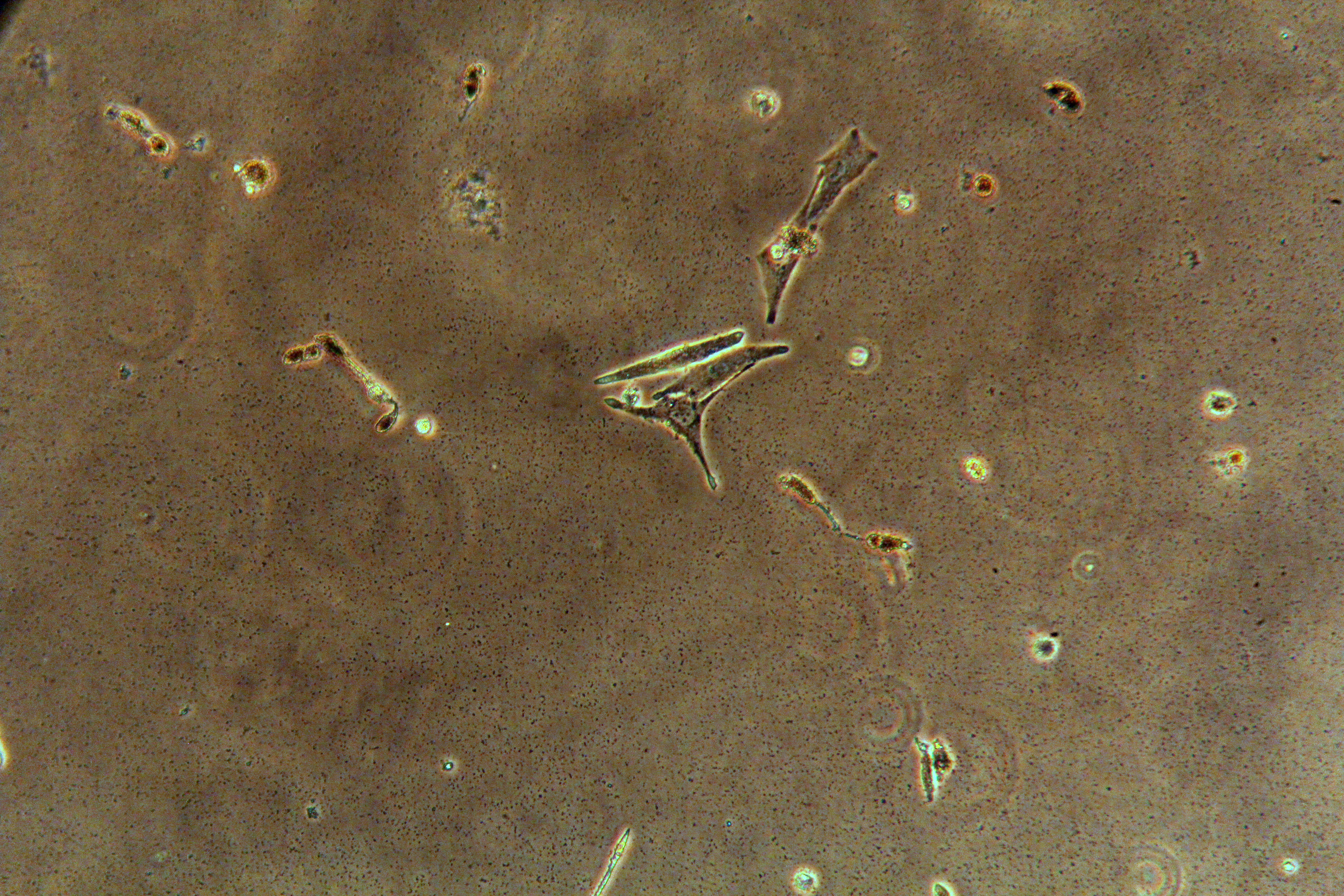 Skin cancer cells in laboratory in UFV, Viçosa, Brazil. Image made with inverted microscope. Mus musculus B16F10 skin melanoma.